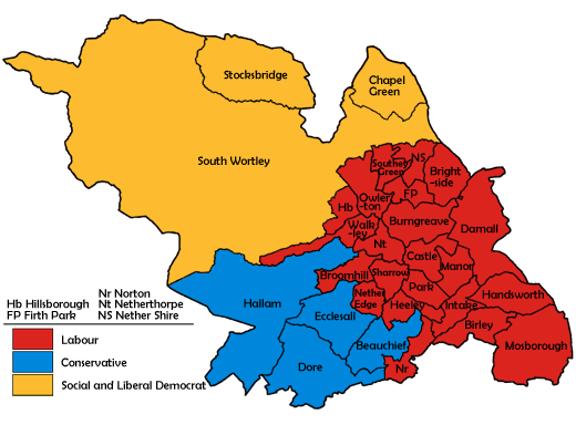 Ward map of Sheffield Council with political colouring for the 1988 election.